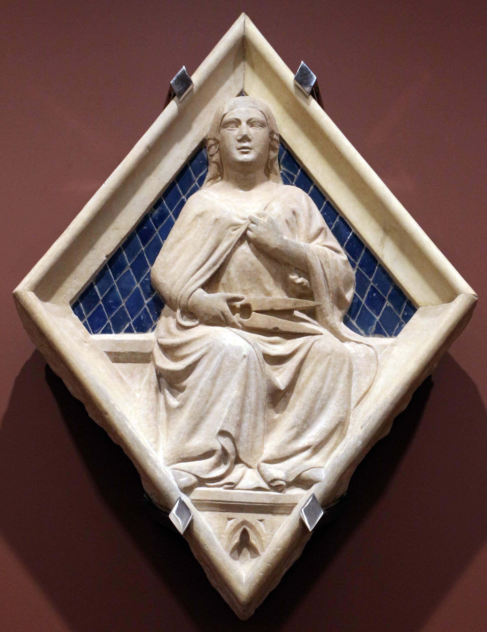 Reliefs of the Giotto's Belltower